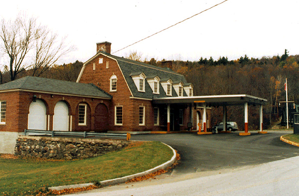 U.S. Inspection Station-East Richford, Vermont